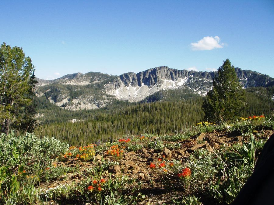 The Trinity Mountains and wildflowers in Boise National Forest, Idaho